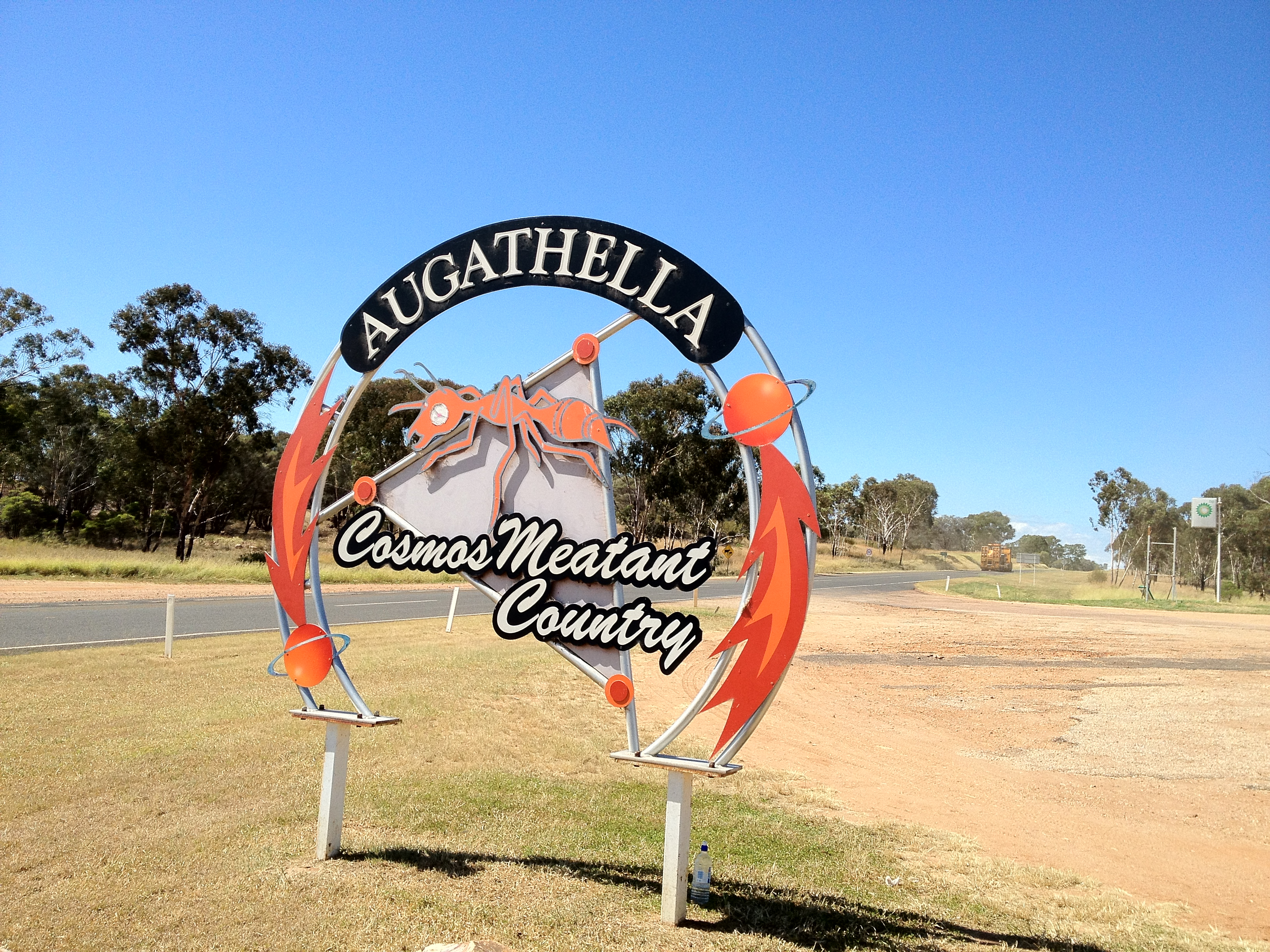 Sign on the Landsborough highway at Augathella